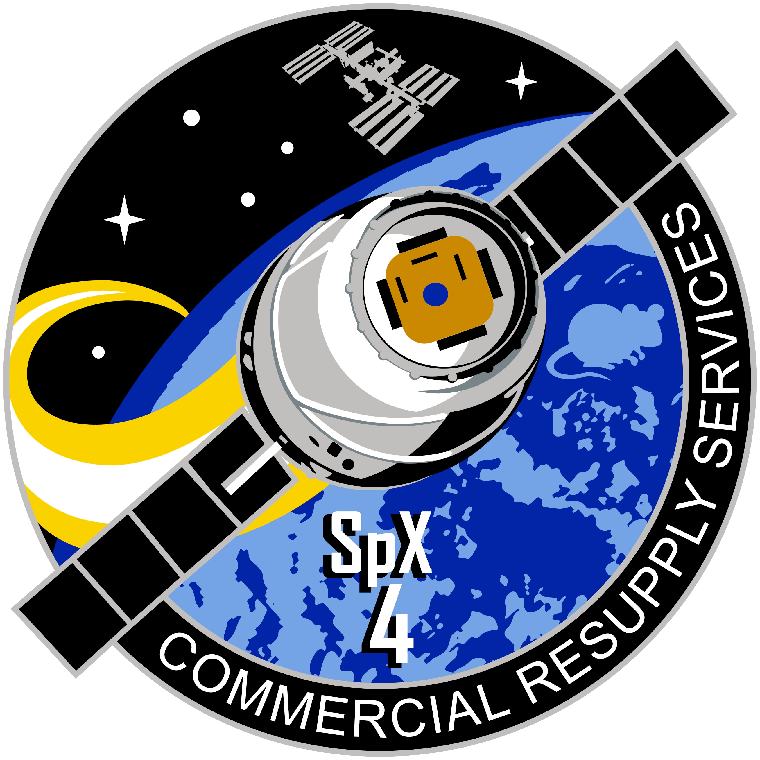 The NASA SpX-4 patch